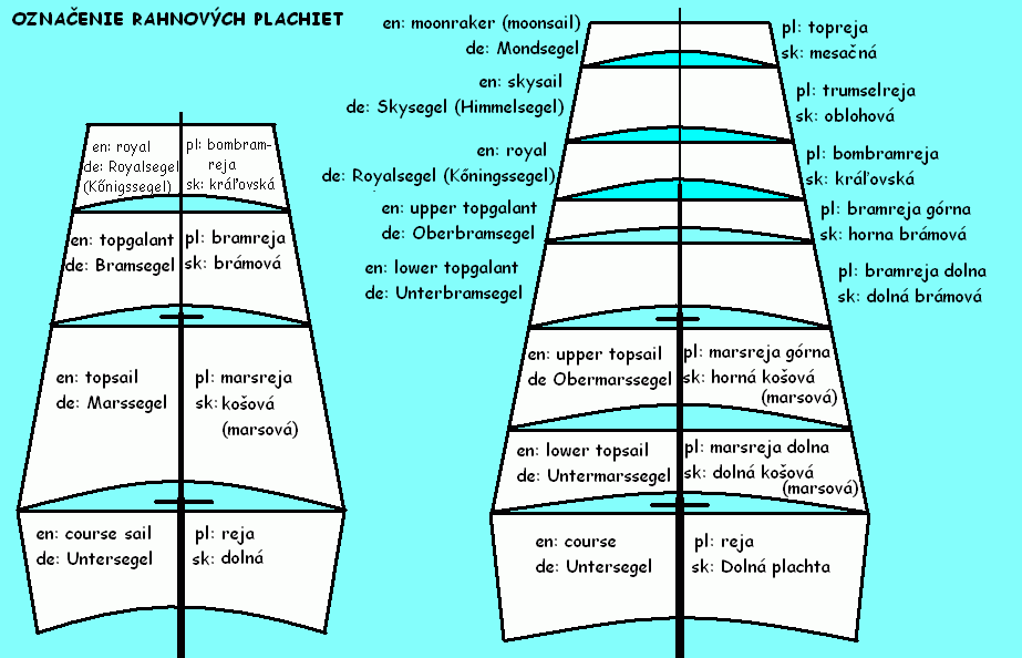 square rig names